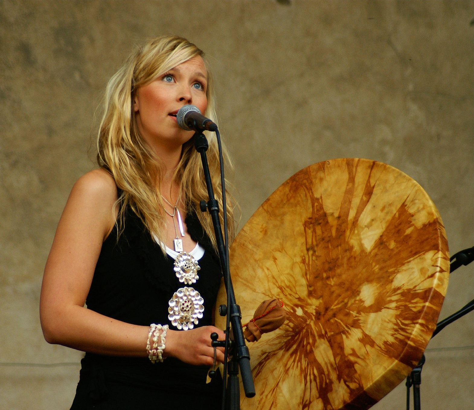 Sofia Jannok live at the Centre Culturel Suédois (Paris, France).